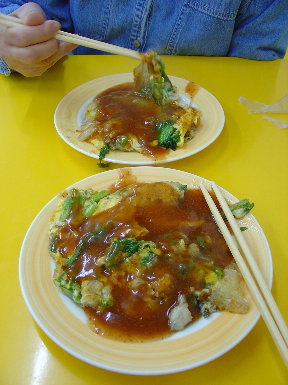 Oyster omelette from Chien Cheng Rotary. Picture taken by Andy P. Jung (容柏輝) User:Night Tracks.